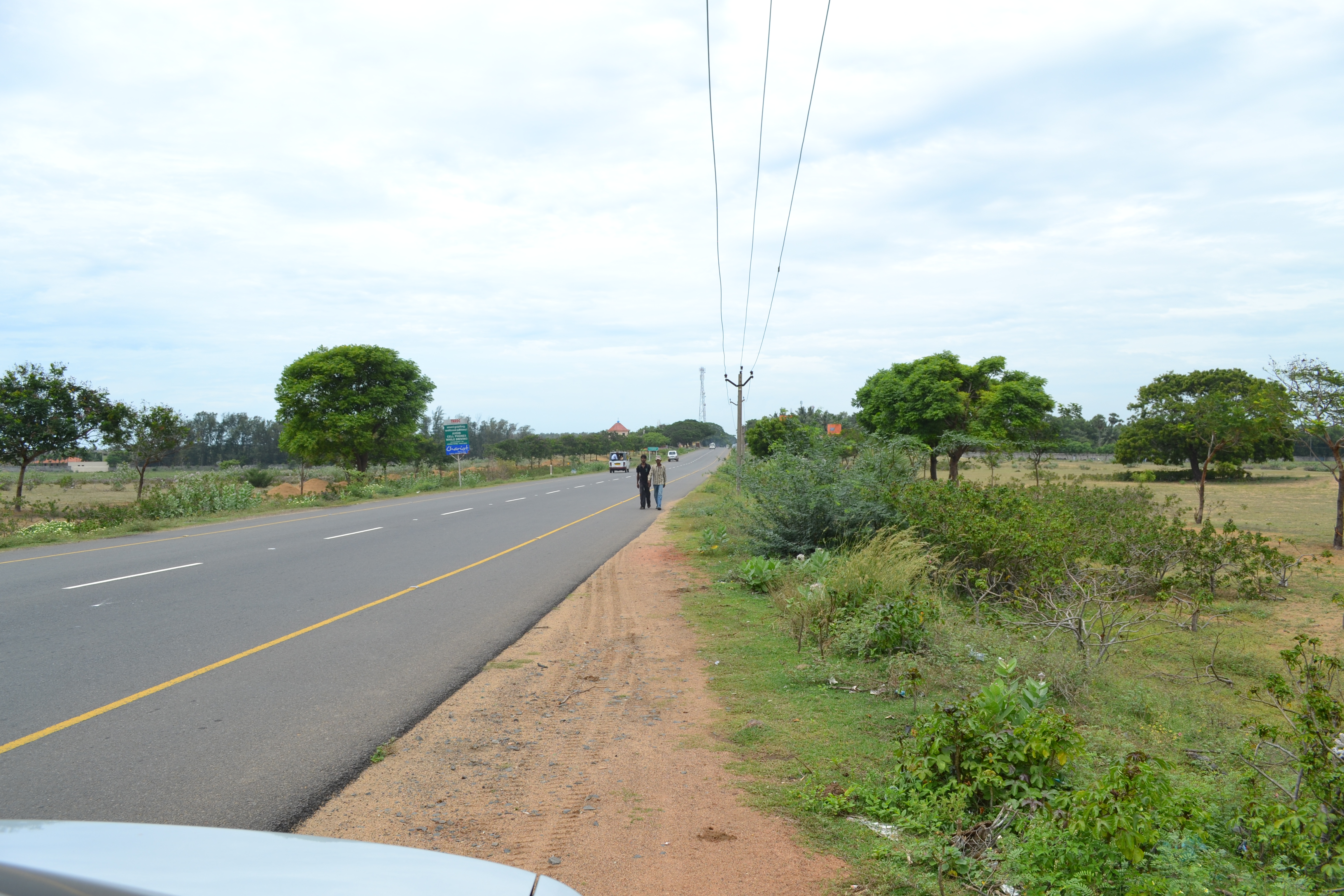 A stretch of the scenic East coast road(SH-49) near Mamallapuram,TN.